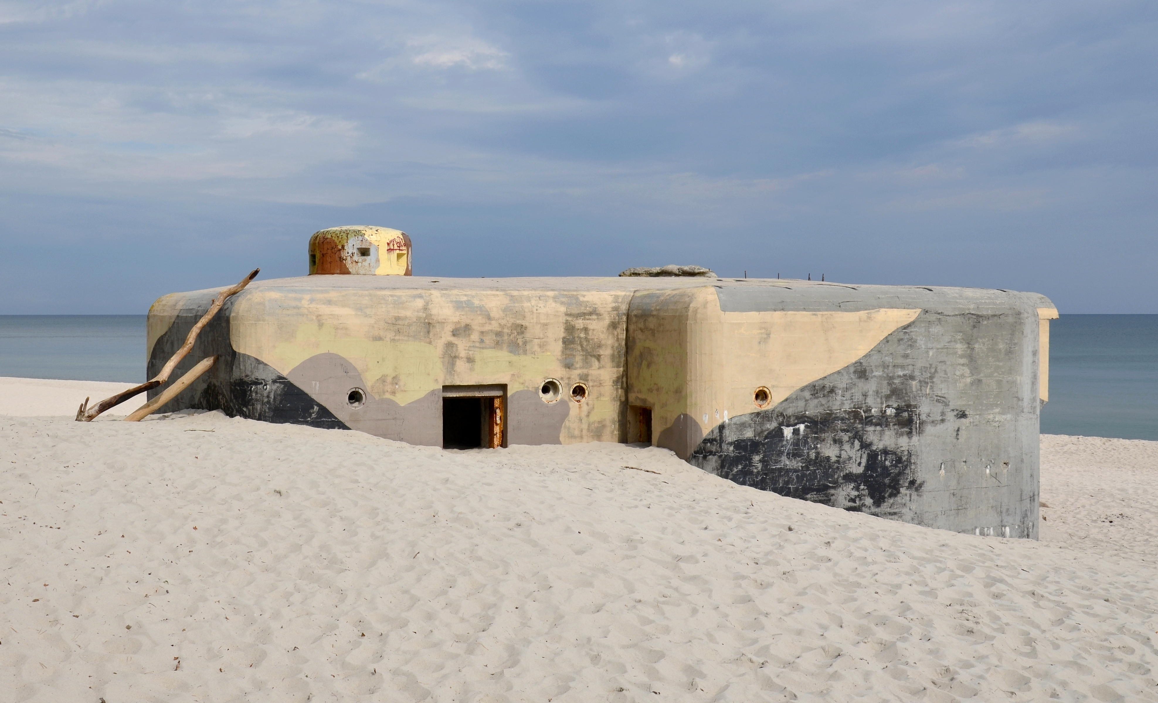 Jastarnia, bunker Sęp, 1939 Ta fotografia przedstawia zabytek wpisany do rejestru zabytków pod numerem ID 637069